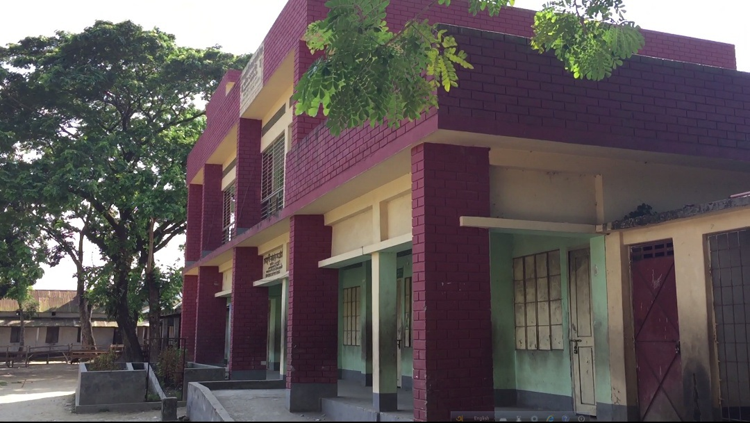 স্কুল ভবন